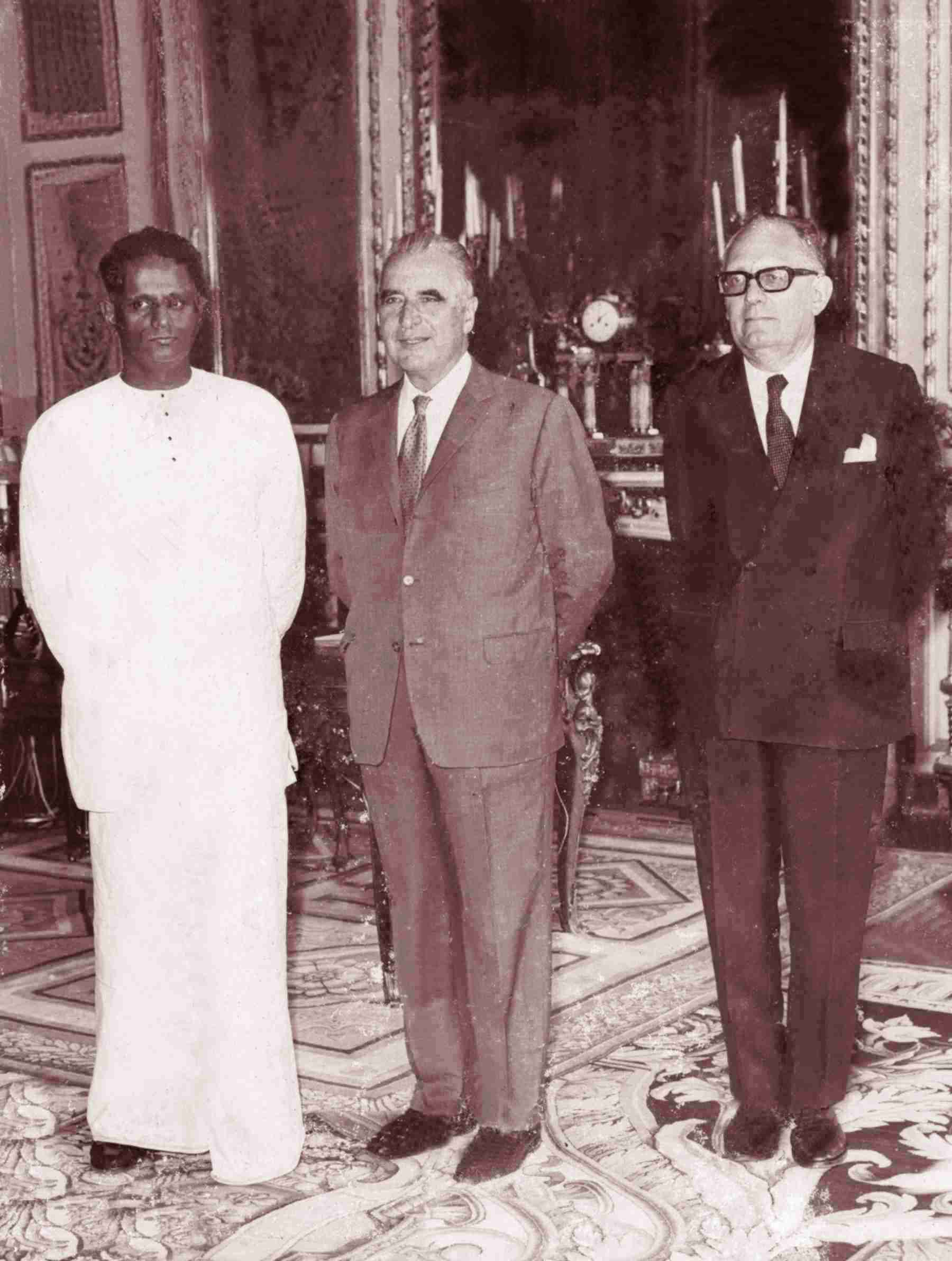 Photograph of Suratissa Wijeyeratne with Georges Pompidou and Maurice Schumann